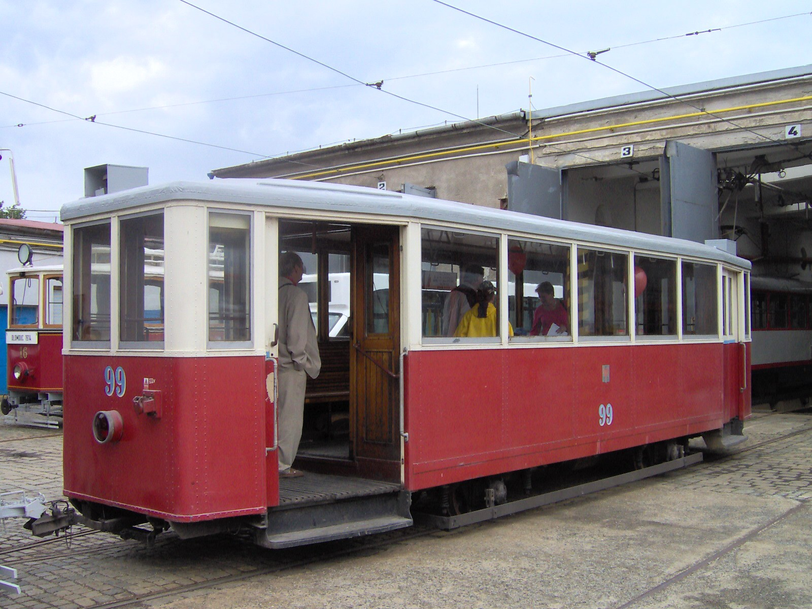 Historical tram trailer No. 99 in tram depot, Olomouc, Czech Republic